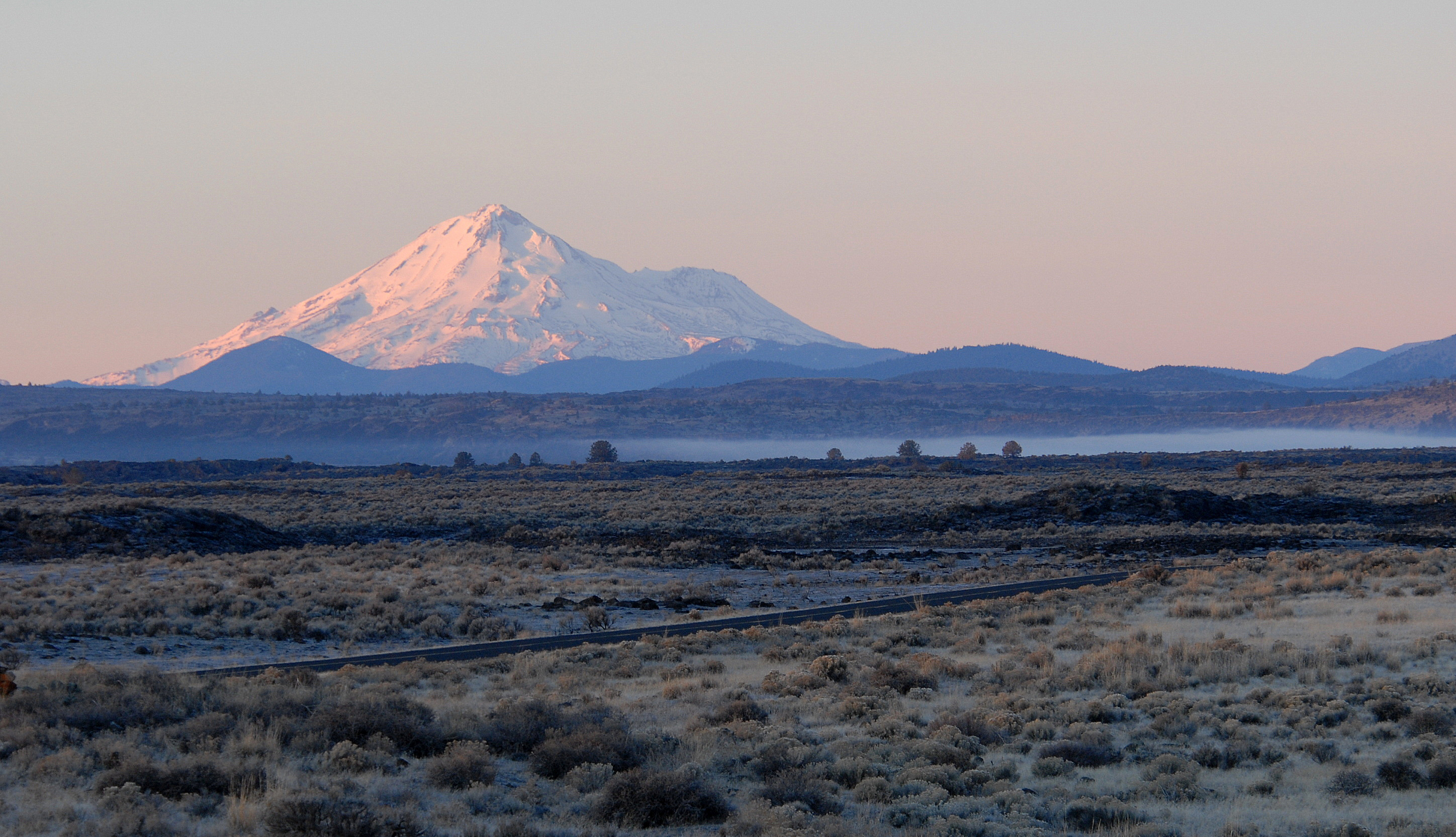 Sagebrush and Mt. Shasta